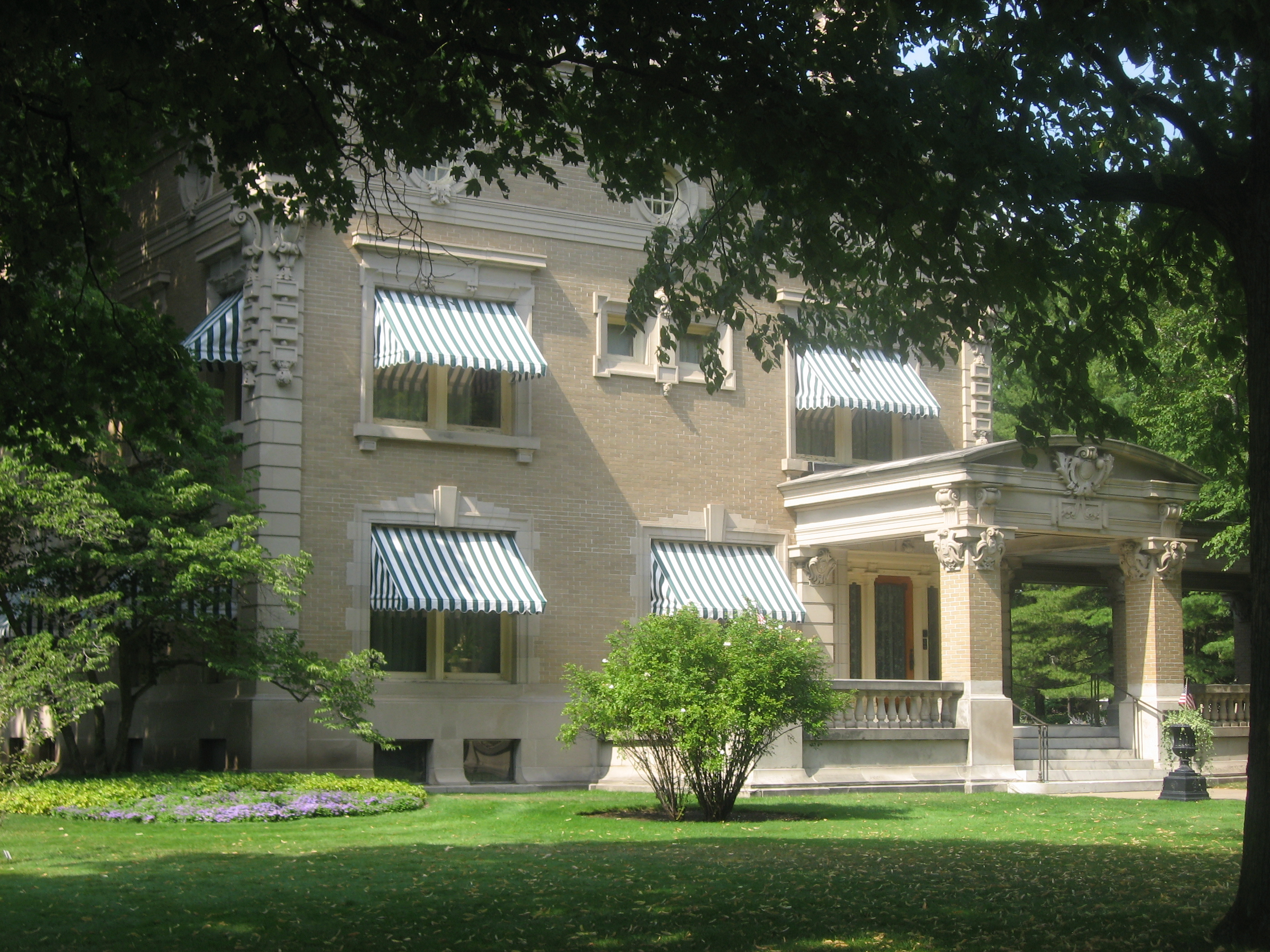 Front of the Albert R. Beardsley House (also known as "Ruthmere Mansion"), located at 302 E. Beardsley Avenue in Elkhart, Indiana, United States. Built in 1908, it is listed on the National Register of Historic Places, and it is part of a Register-listed historic district, the Beardsley Avenue Historic District.